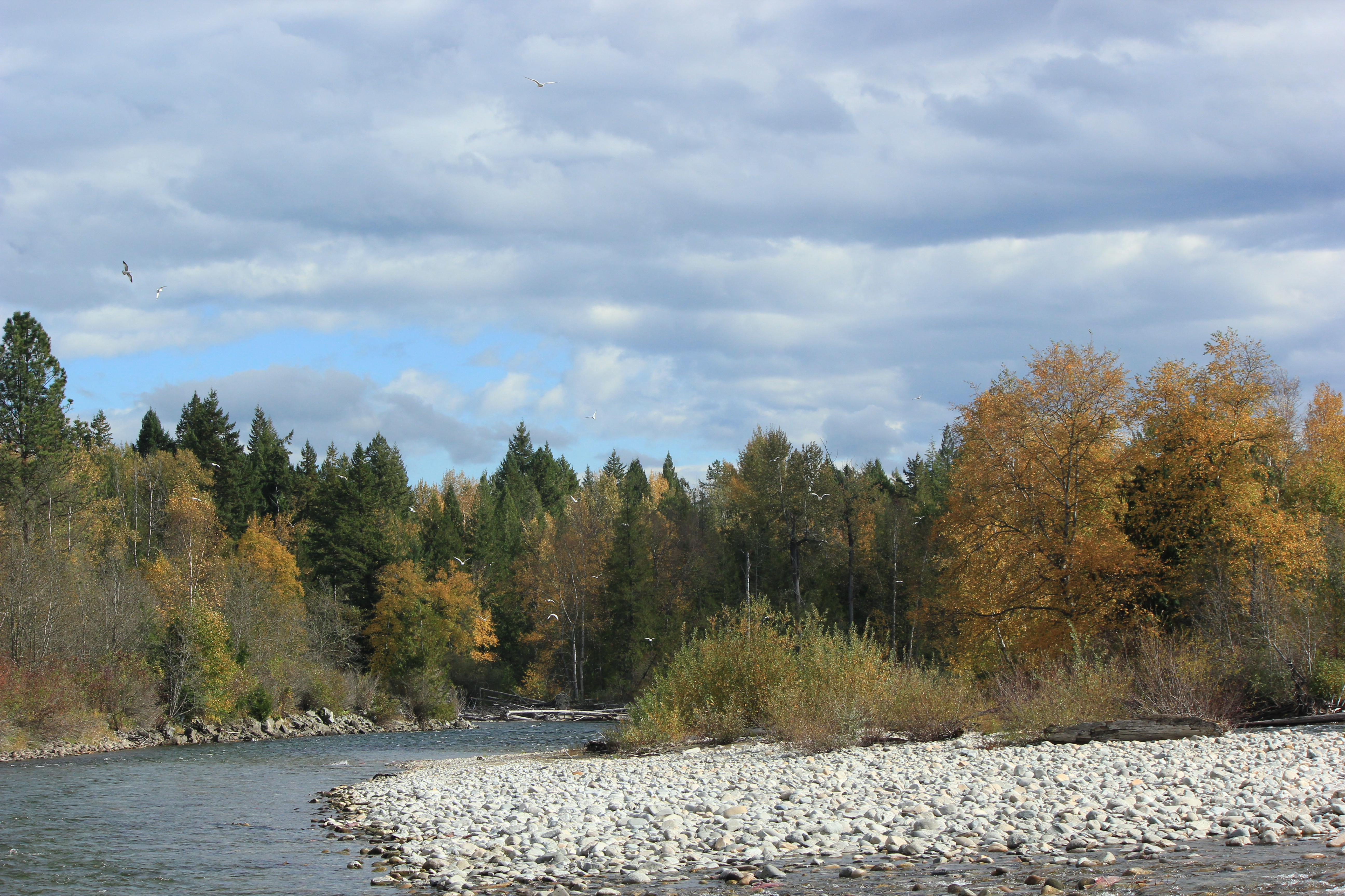 The Adams river in November inside the boundaries of the former Roderick Haig-Brown Provincial Park.